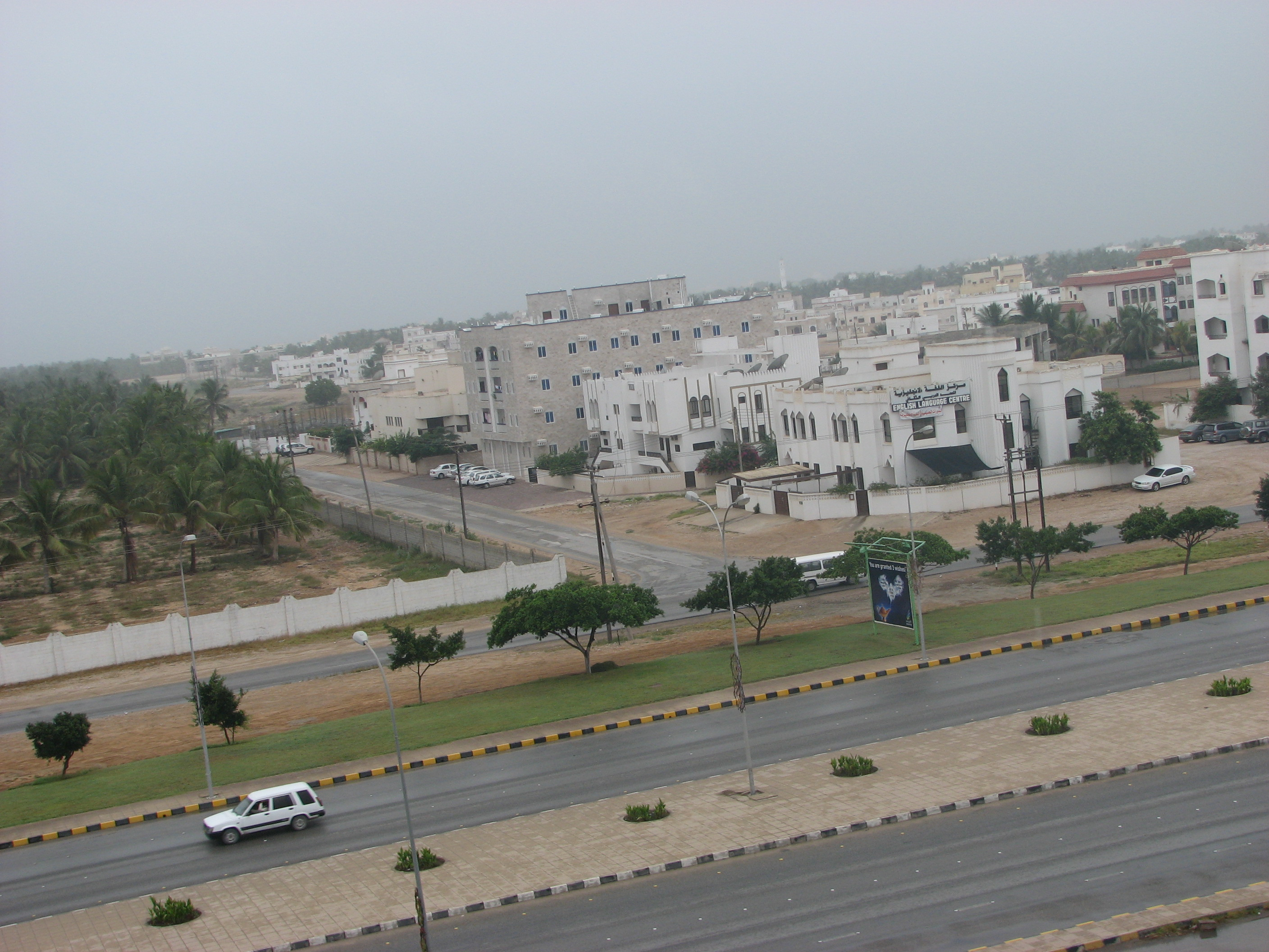 View from Hamilton Plaza Hotel